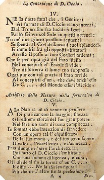 Sonnets fourth and fifth of the "Cicceide legitima", third edition (1692), an italian literature work of Giovanni Francesco Lazzarelli